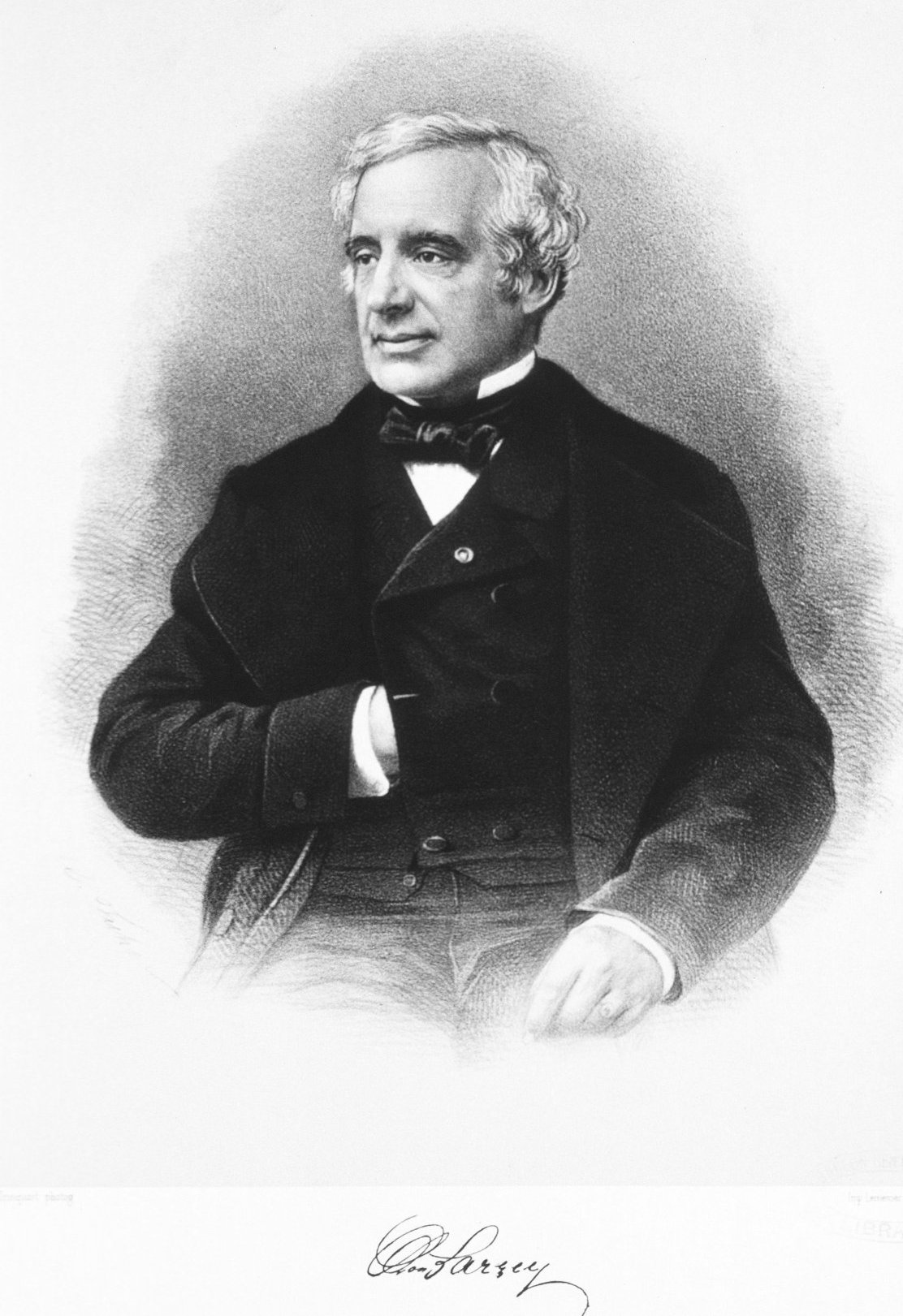 Félix Hippolyte Larrey, French surgeon and innovator in battlefield medicine.